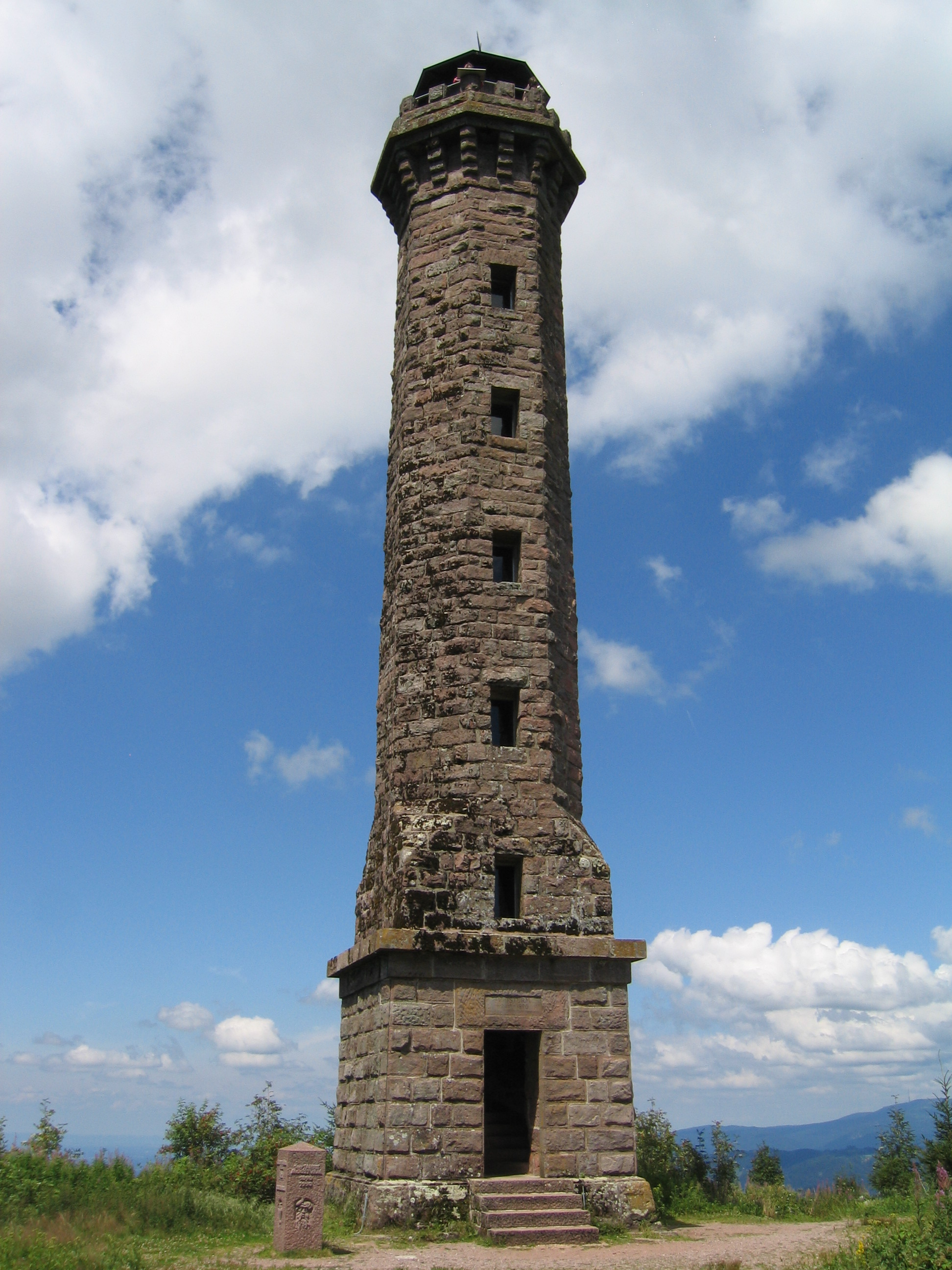 Moosturm at Mooskopf in the Black Forest.